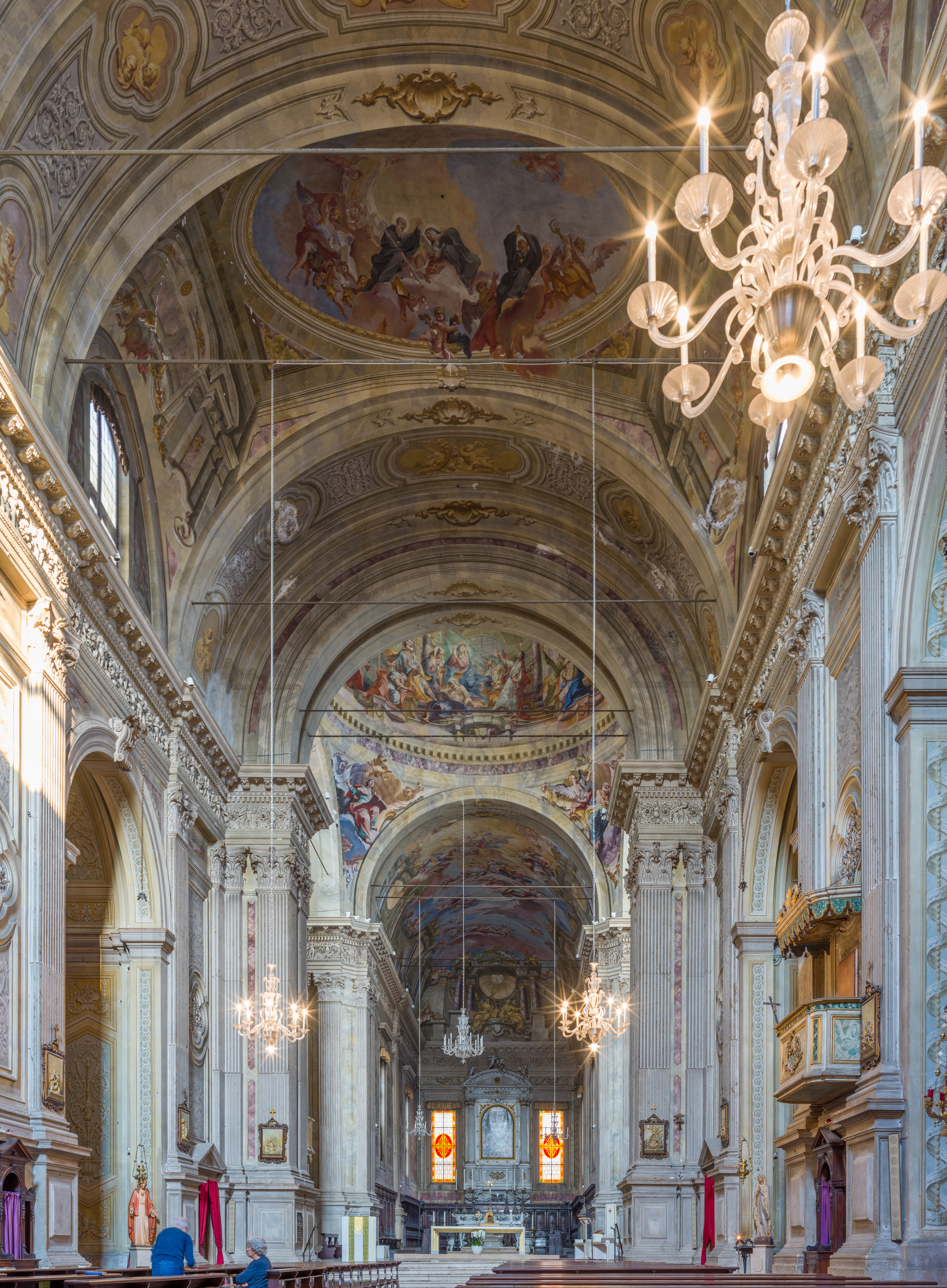 Interior of the Chiesa di Sant'Afra church in Brescia.